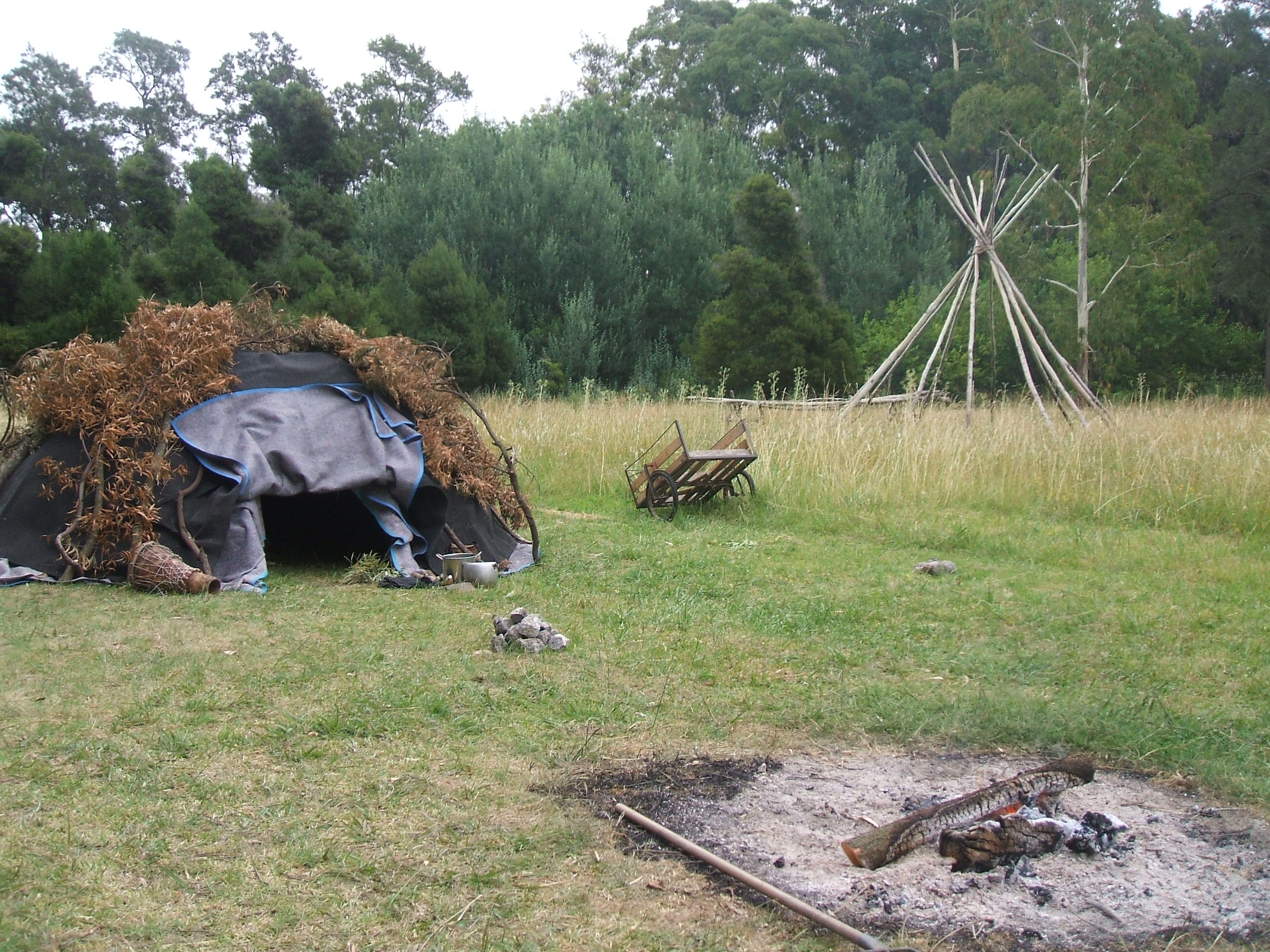 sweat lodge